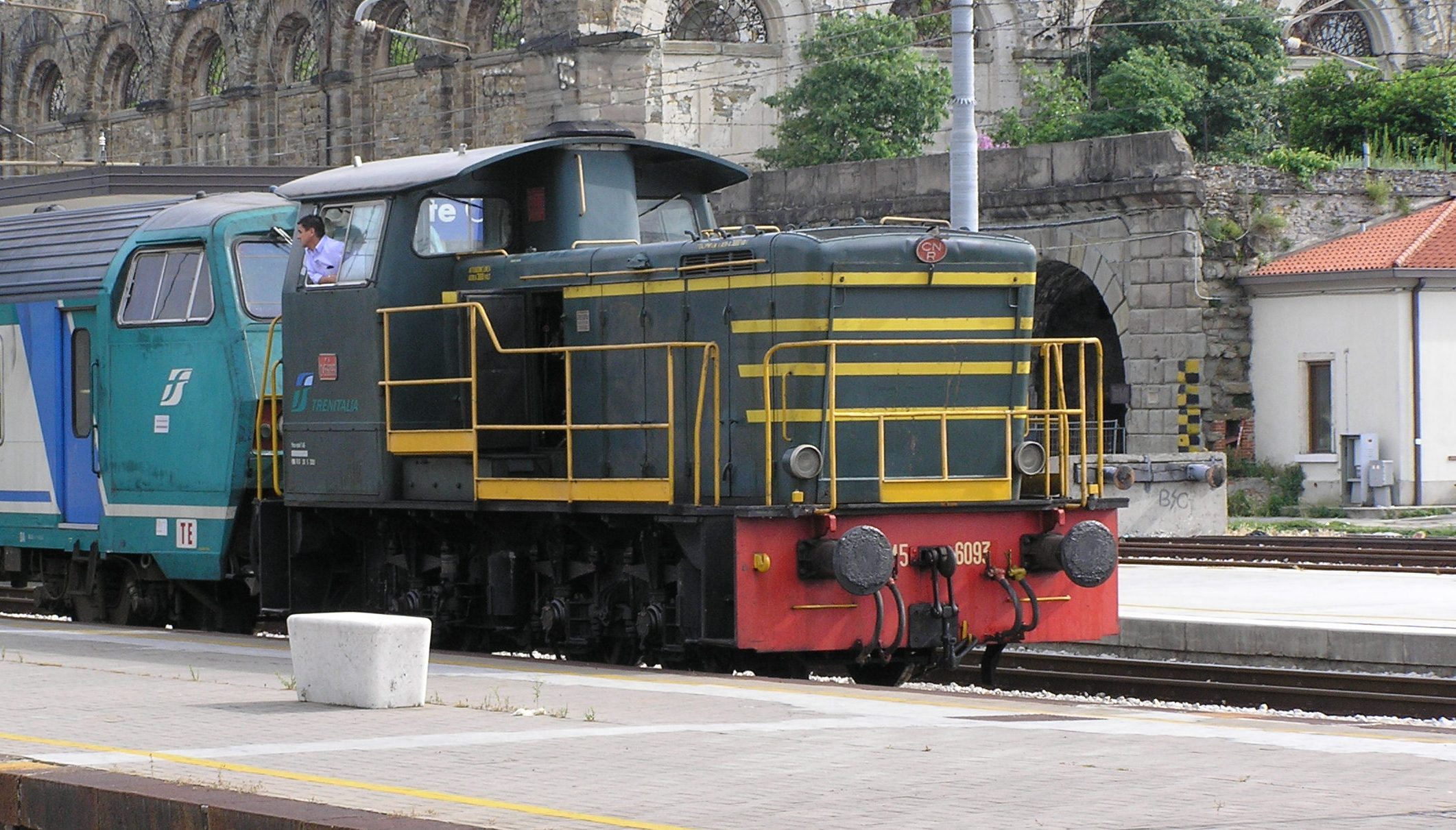 FS_245_series_locomotive in Trieste, Italy